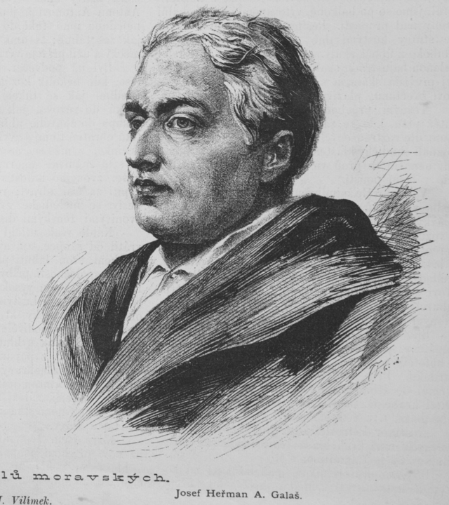 Portrait of Josef Heřman Agapit Gallaš, Moravian painter and writer from the early phase of national revival.